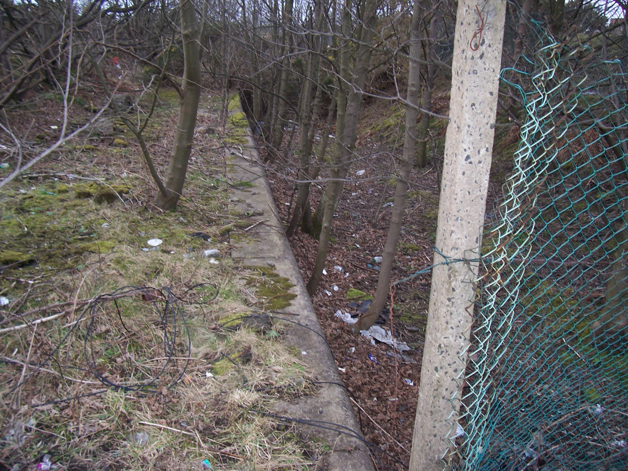 The remains of Ardeer Platform railway station in 2007. Photo by Dreamer84.